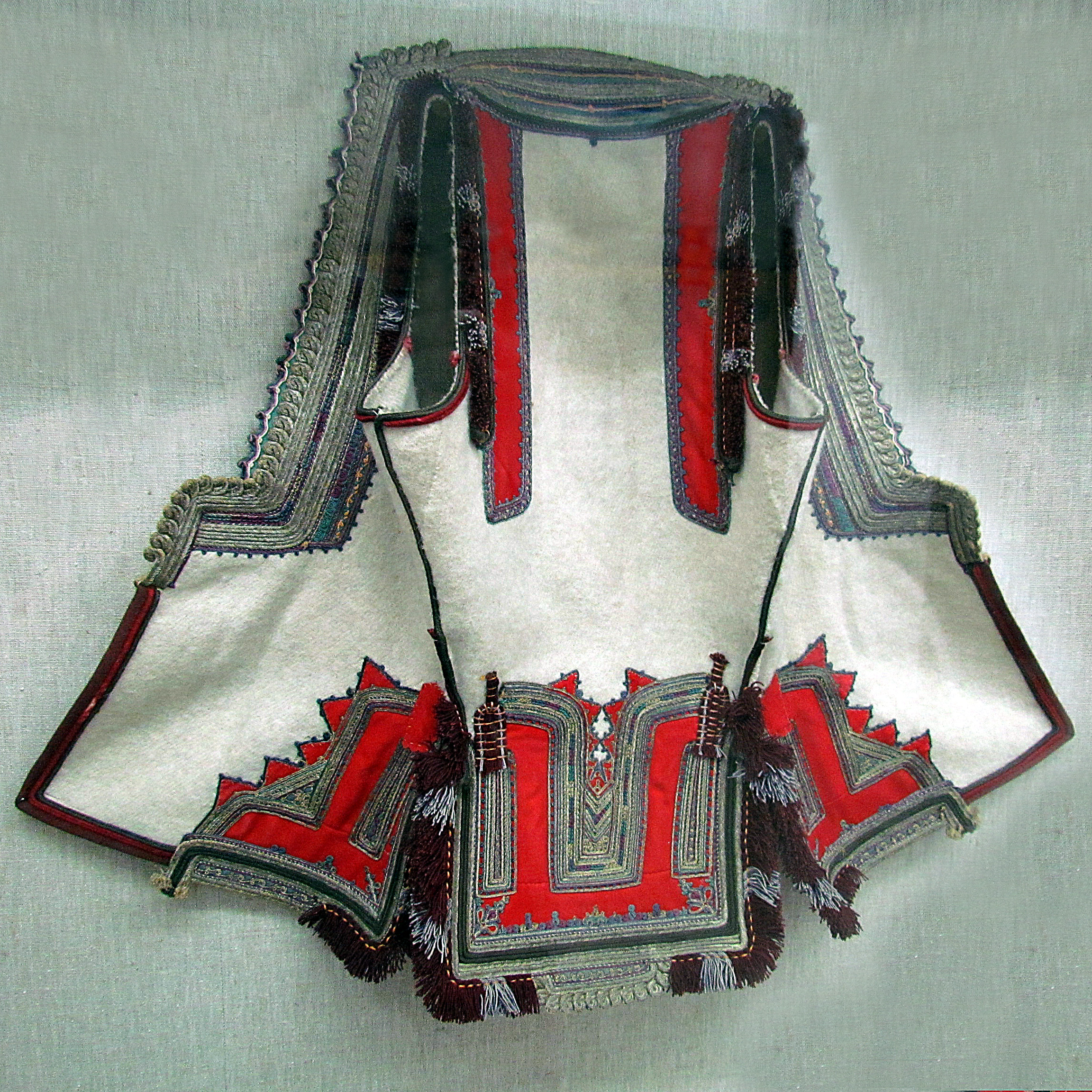 Zubun Serbian national costume from Kosovo and Metohia